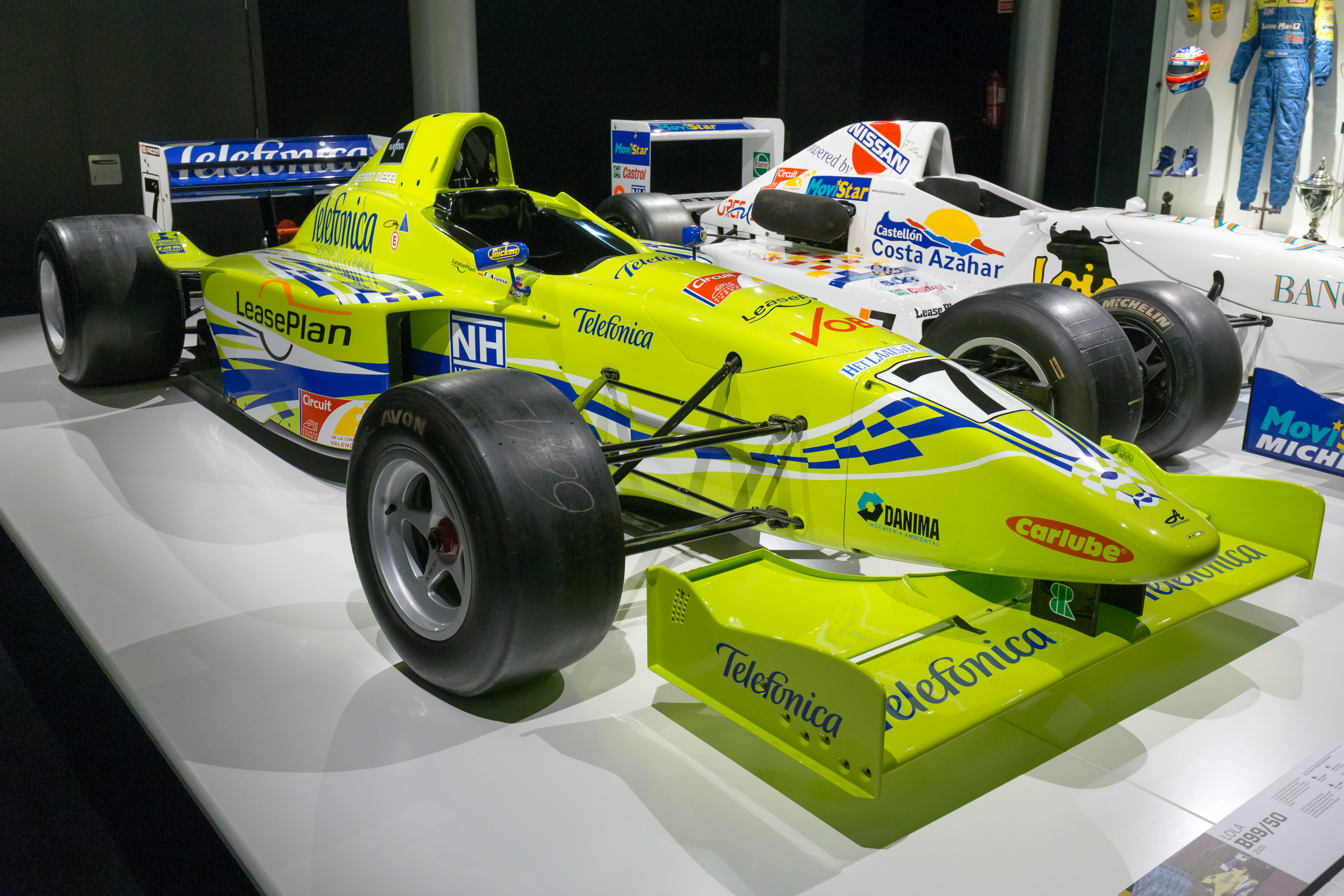 Museo y Circuito Fernando Alonso: 2000 Lola B99/50 of Fernando Alonso